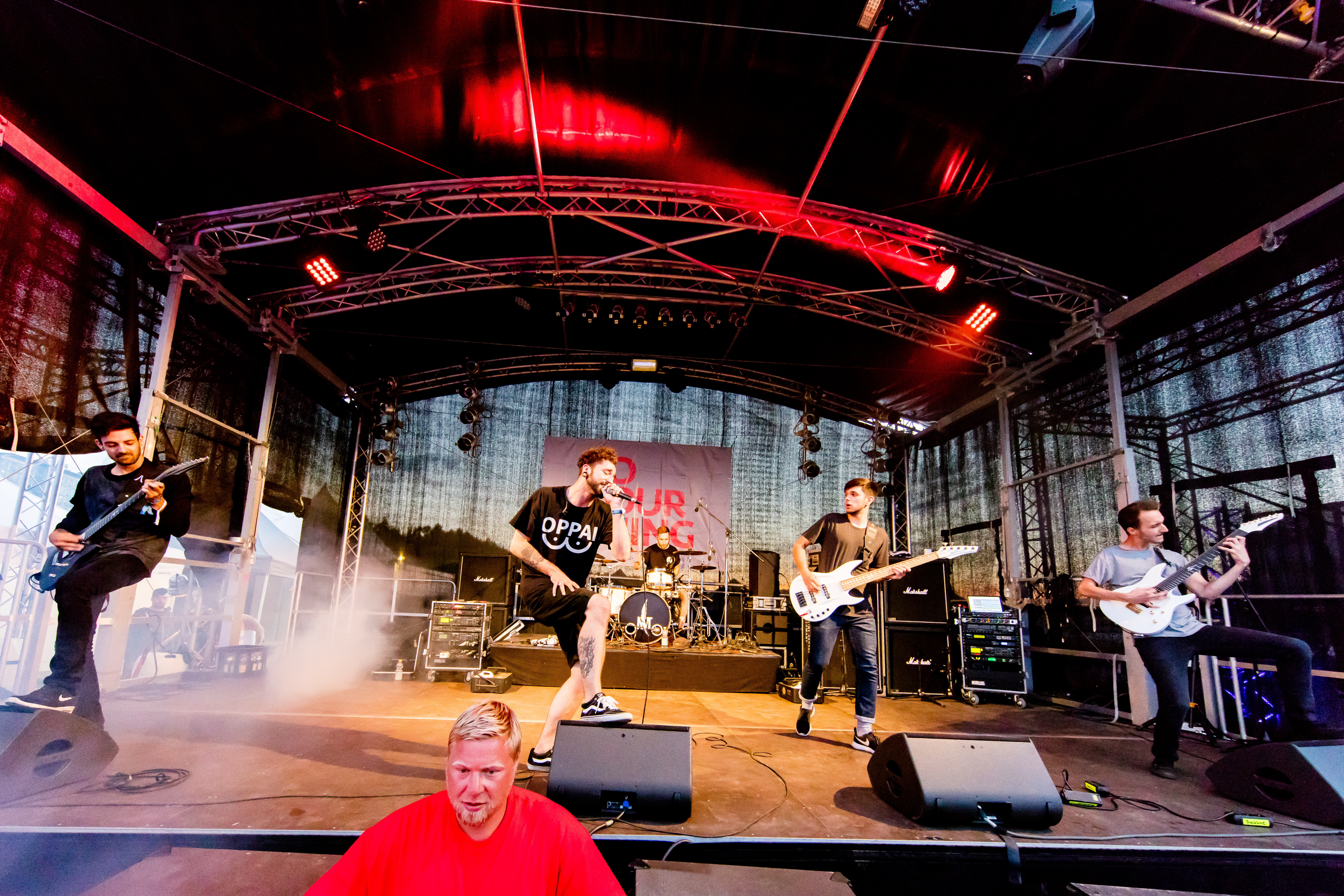 Novelists during Summer Breeze 2016 at , Dinkelsbühl, Bayern, Germany on 2016-08-17, Photo: Sven Mandel